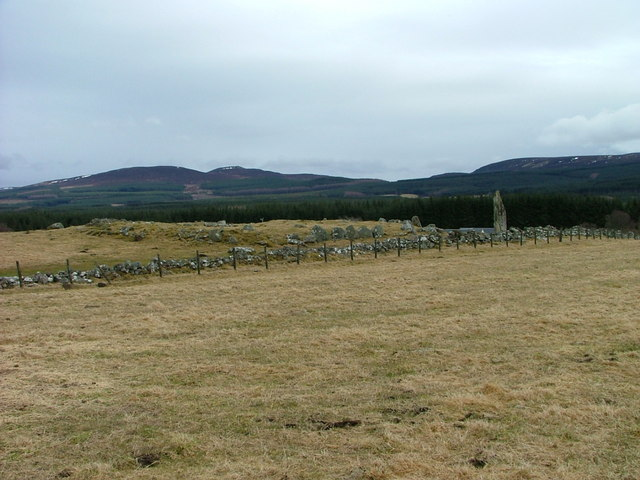 Ring cairn and standing stone at Gask. Viewed from the B861 Tombreck to Inverness road. For a closer view of the standing stone, see....219592